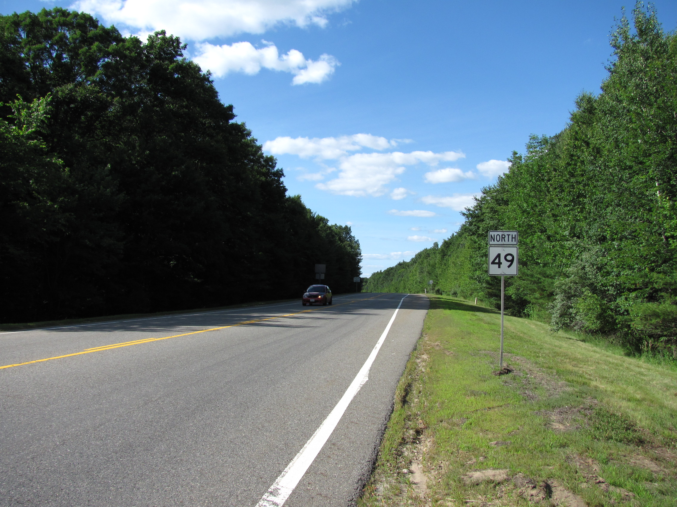 Massachusetts Route 49 northbound entering East Brookfield, Sturbridge Massachusetts - also known as the Podunk Pike